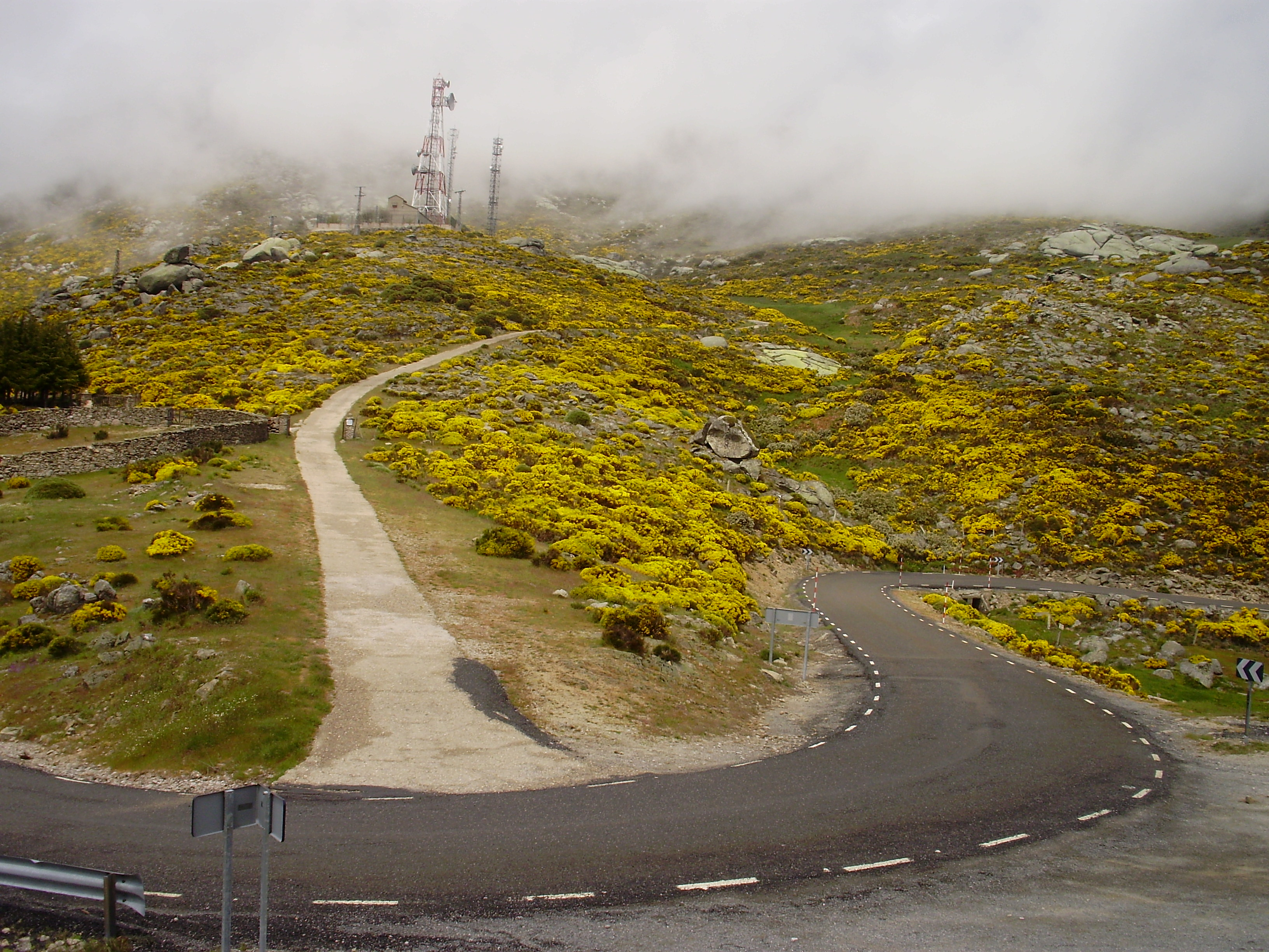 View of Puerto (mountain pass) de Serranillos, Ávila, Castile and León, Spain.